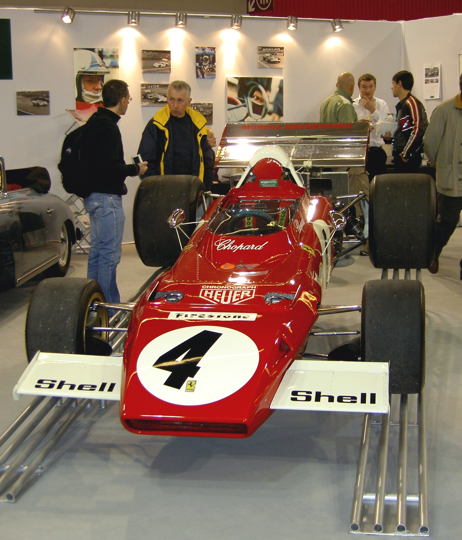 Ferrari 312 B2 (Jacky Ickx car).